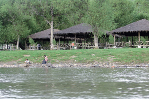 Rio Santa Bárbara, Gualaceo